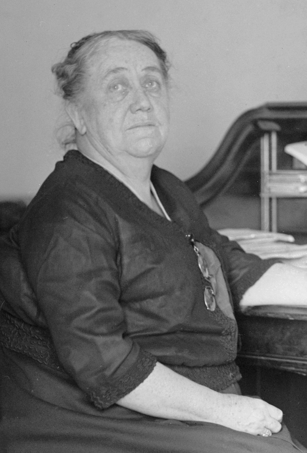 Title: Mrs. Harriet Taylor Upton Abstract/medium: National Photo Company Collection (Library of Congress) Physical description: 1 negative